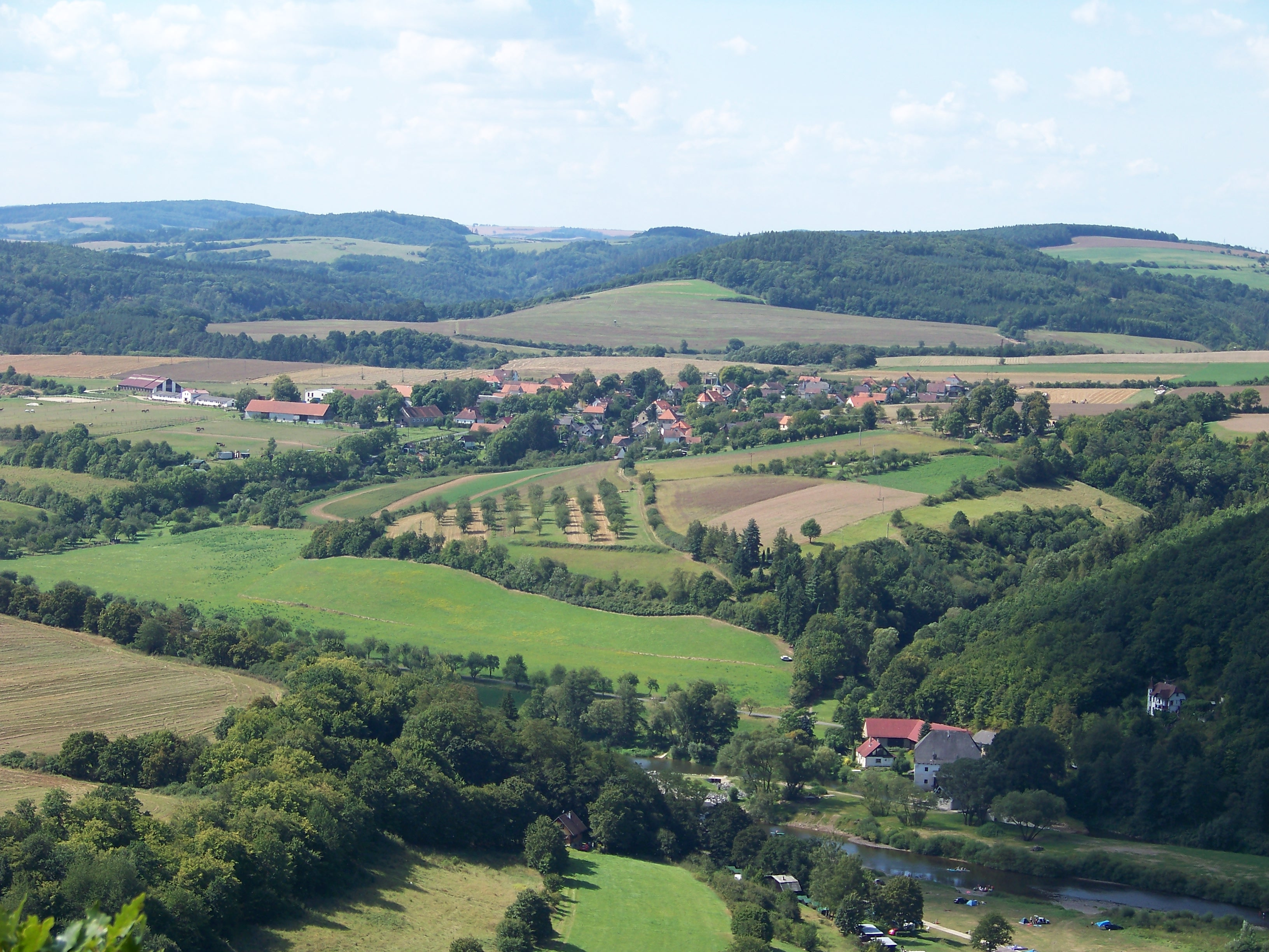 Rakovník District, Central Bohemian Region, the Czech Republic. Views of Nezabudice from Nezabudice Rocks.